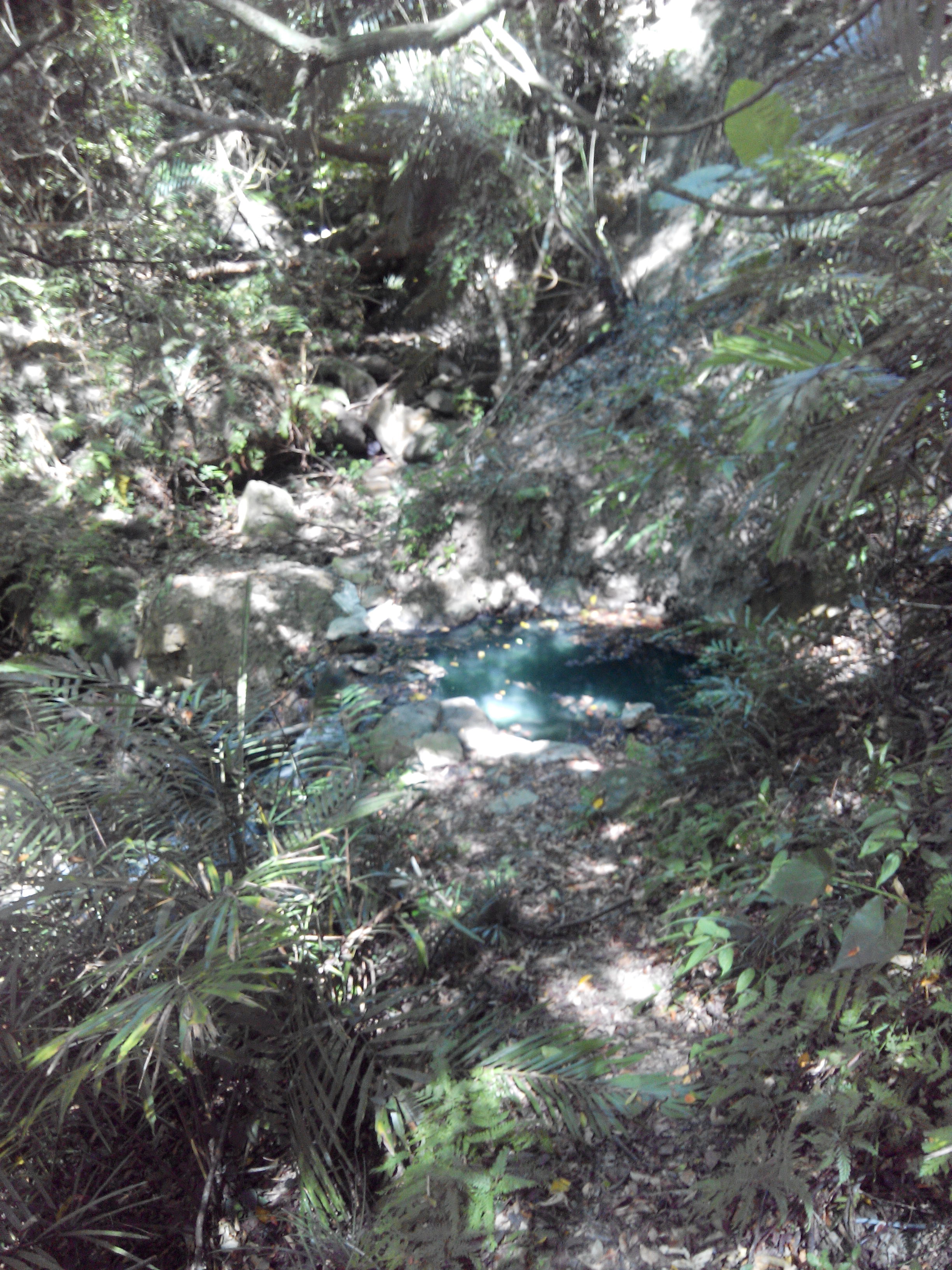 Liji Hot Spring Second Outcrop